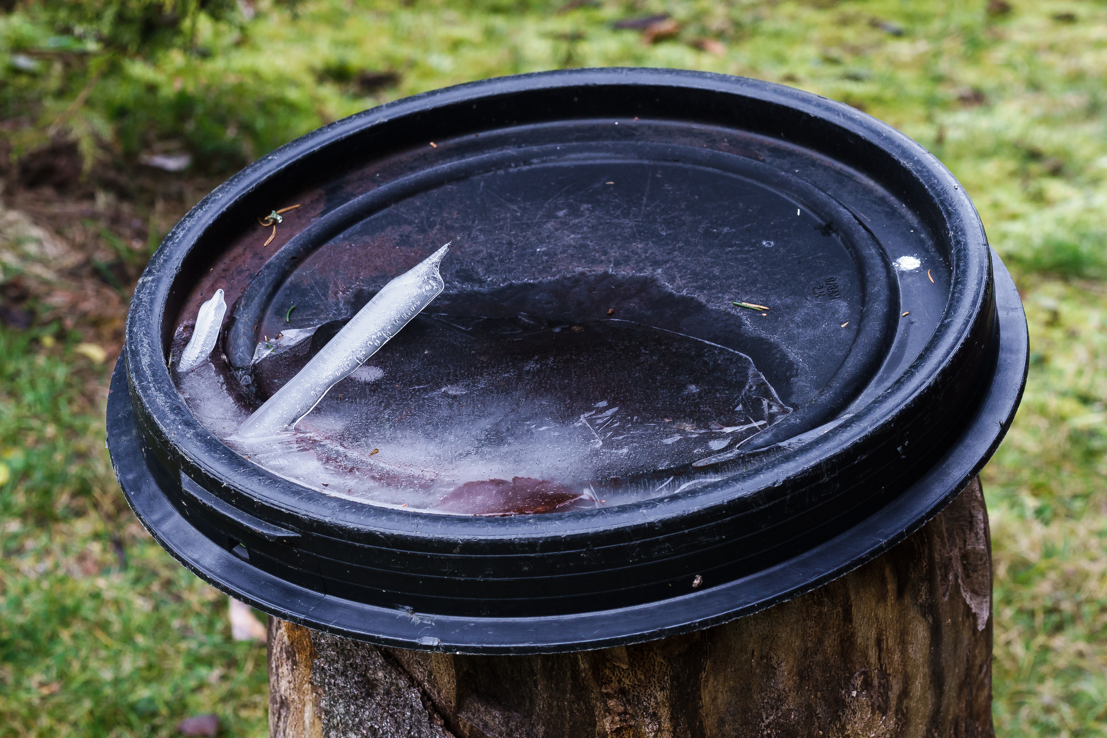 Ice spikes - Vogelsberg Mountains